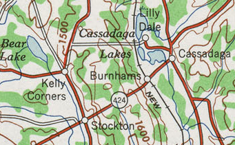 1948 topographic section of former New York State Route 424